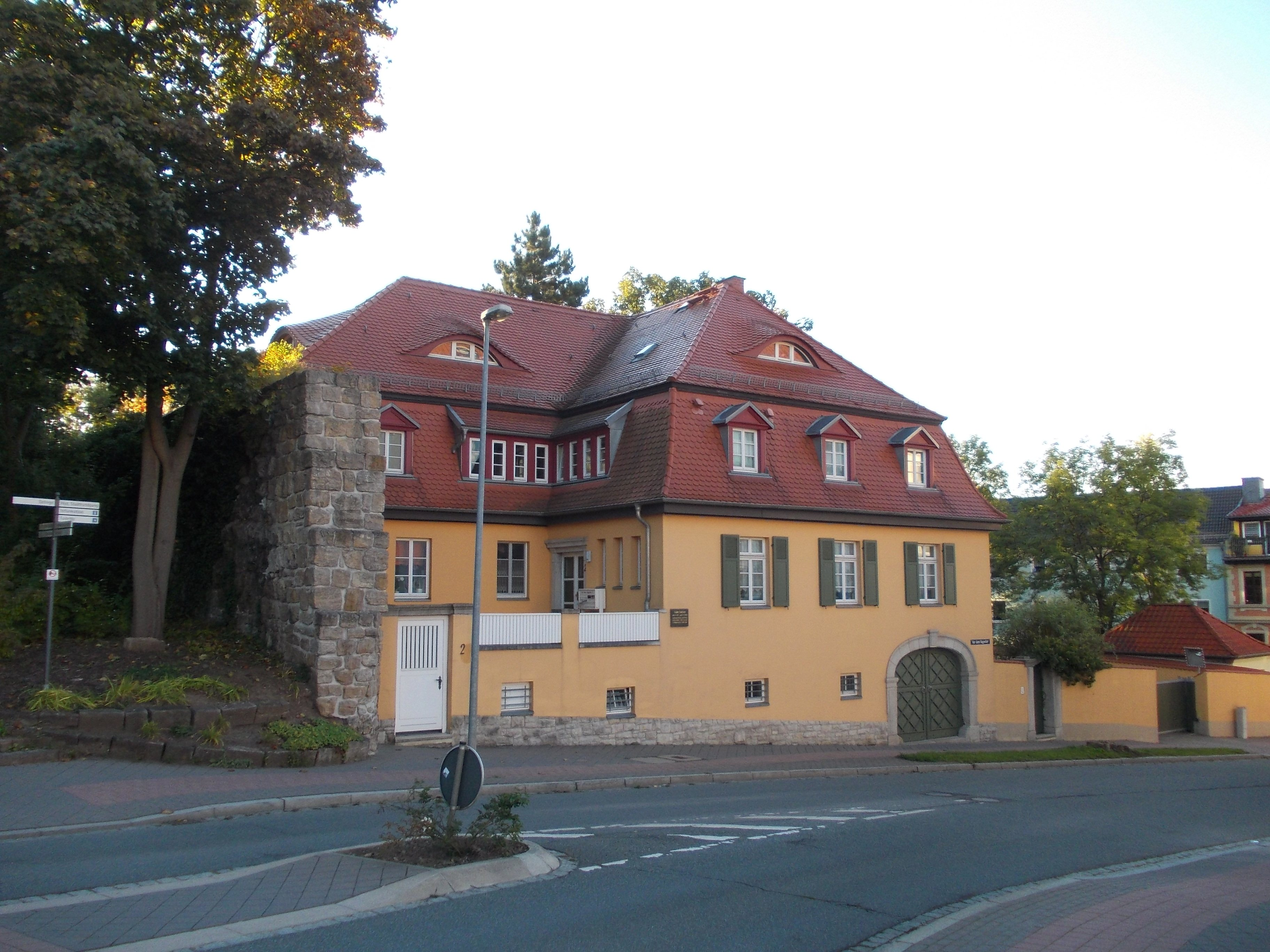 No. 2 at Vor dem Hagentor in Nordhausen (Thuringia), the house where Käthe Kollwitz lived in 1943/44. On the left, the town wall.